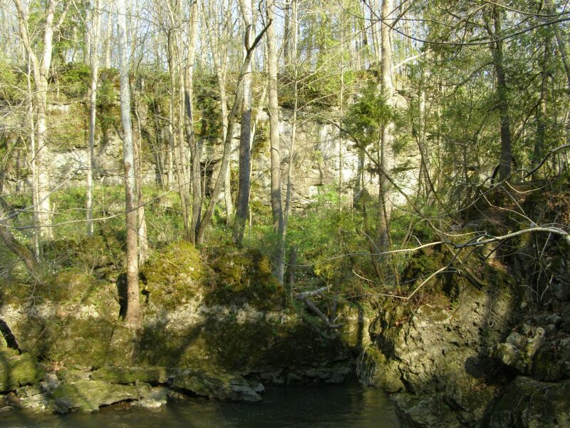 Clifton Gorge State Nature Area (John Bryan State Park)